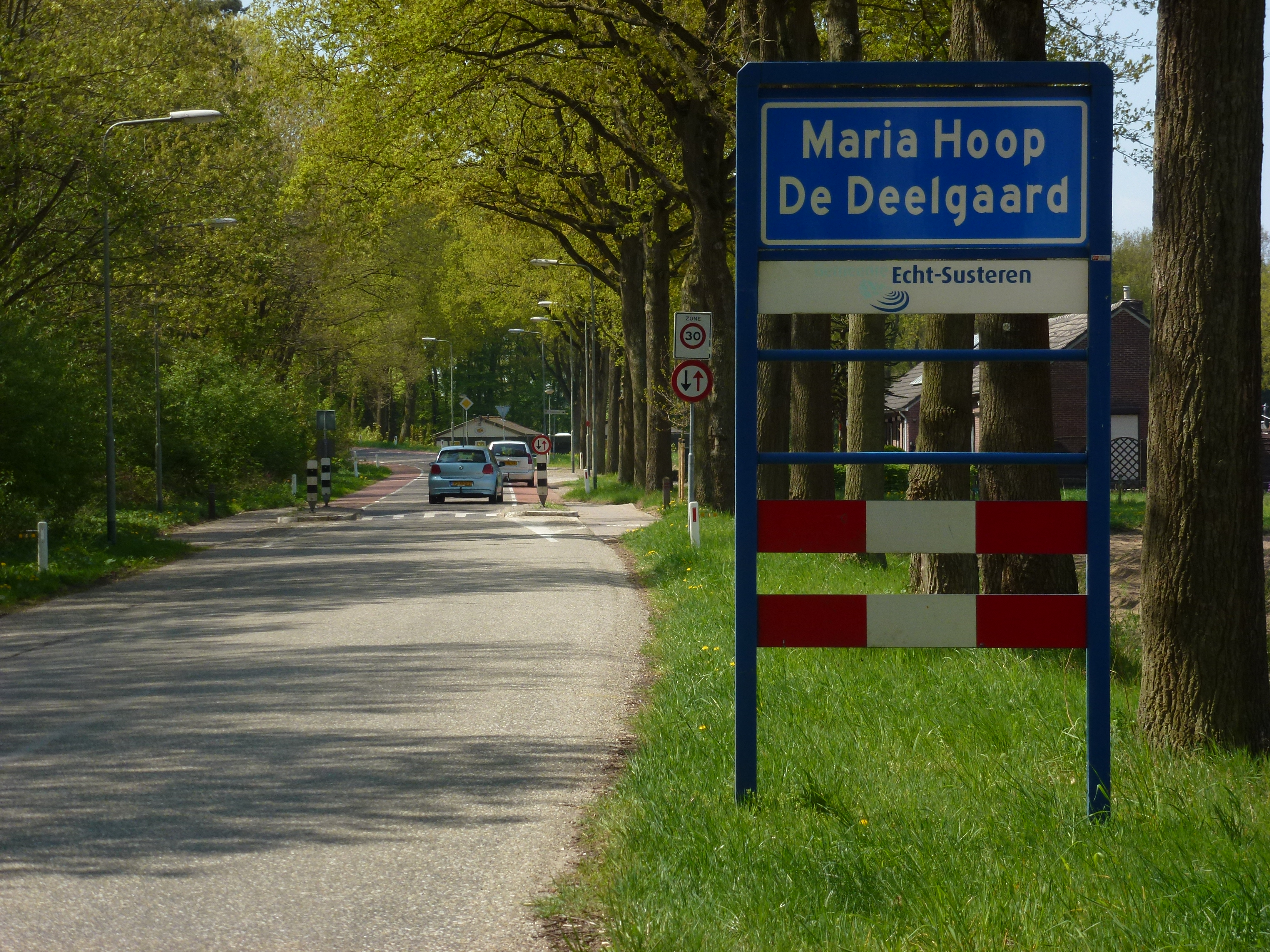 Maria-Hoop (Echt-Susteren) entreebord